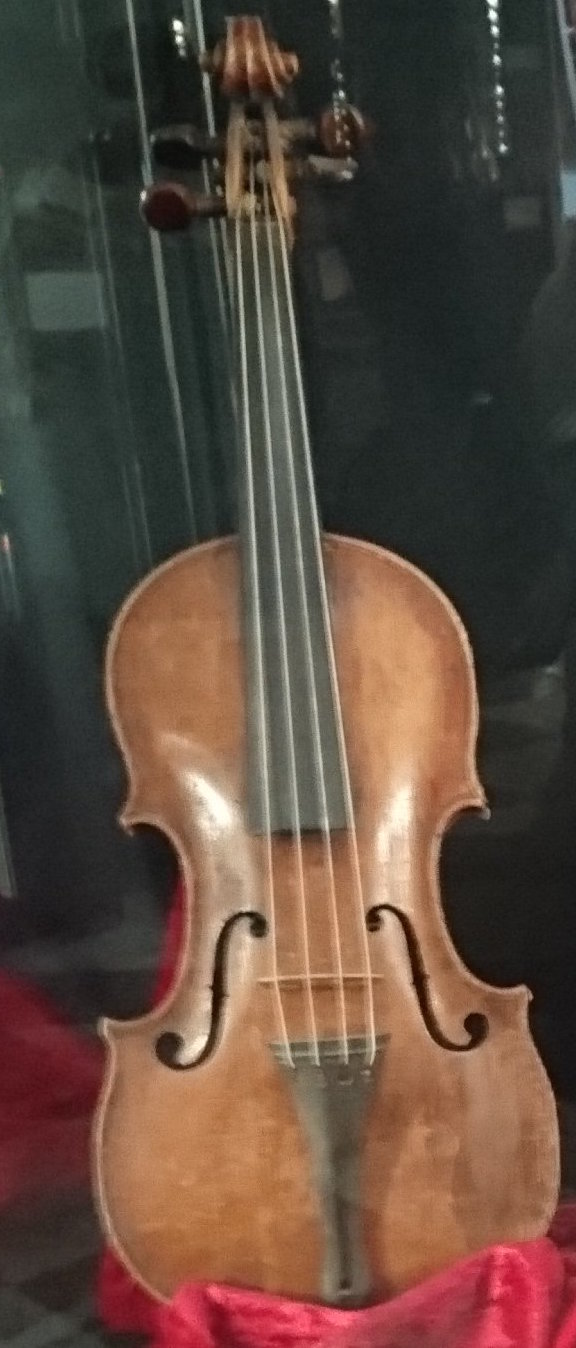 3/4 Violin built by Joseph Odoardi in Ascoli in 1776 exponent for particular importance for the school of Marches